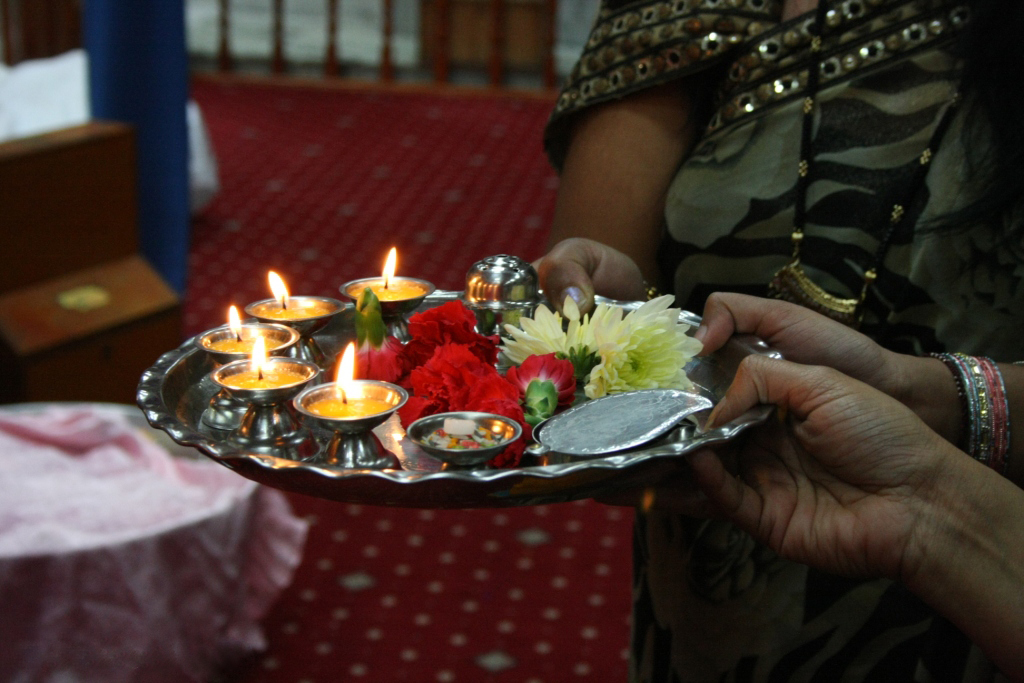 One of many types of aarti plates Items inside the Aarti Thali: Diyas - lamps flowers prasaad (edible offerings) Incense stick stand Camphor, shell or other items